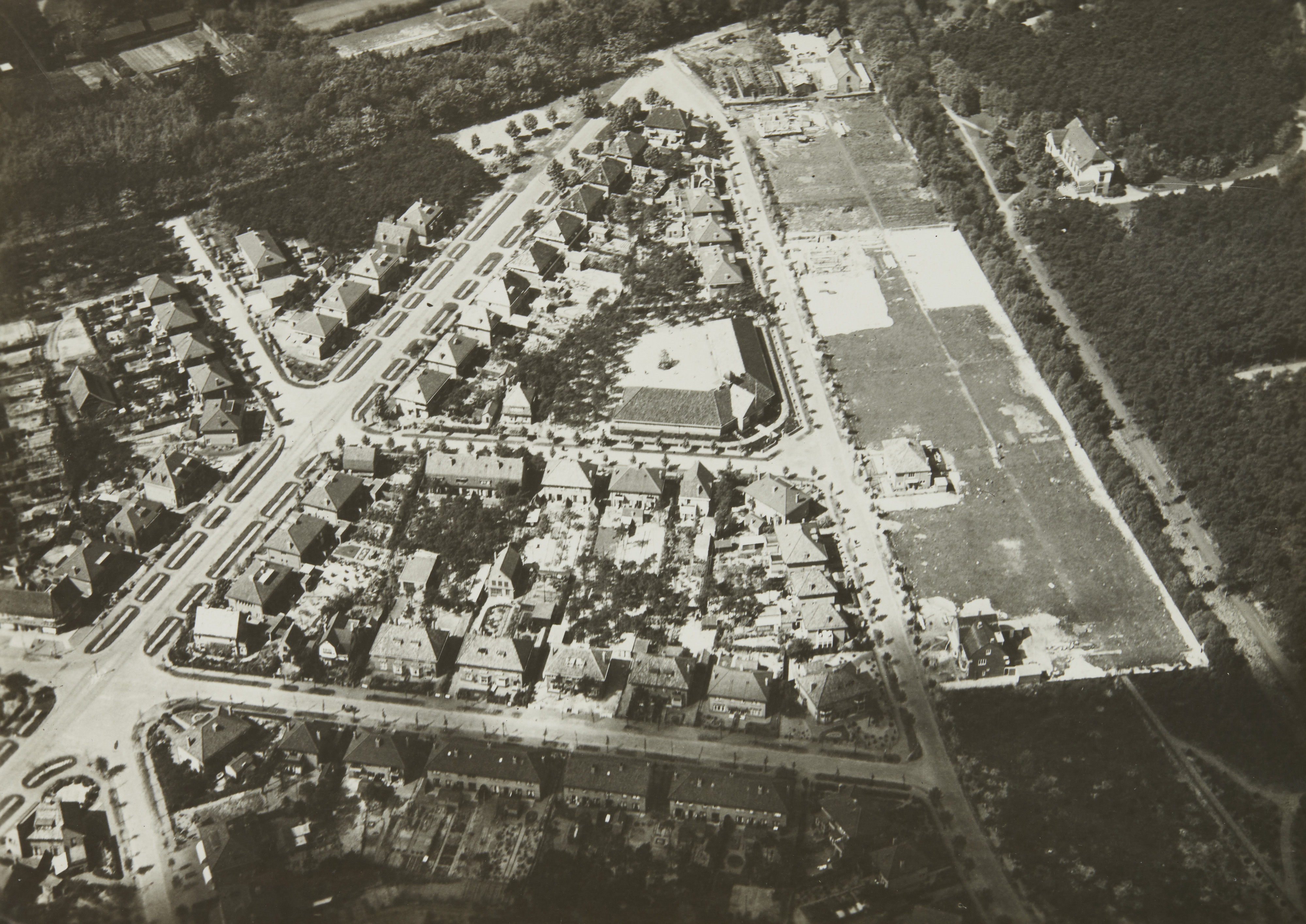 Aerial photograph of Zeist in The Netherlands.